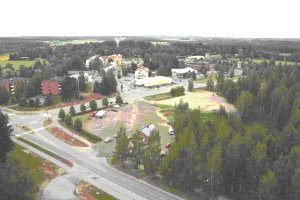 Liperin tori kuvattuna Liperin kirkon tornista